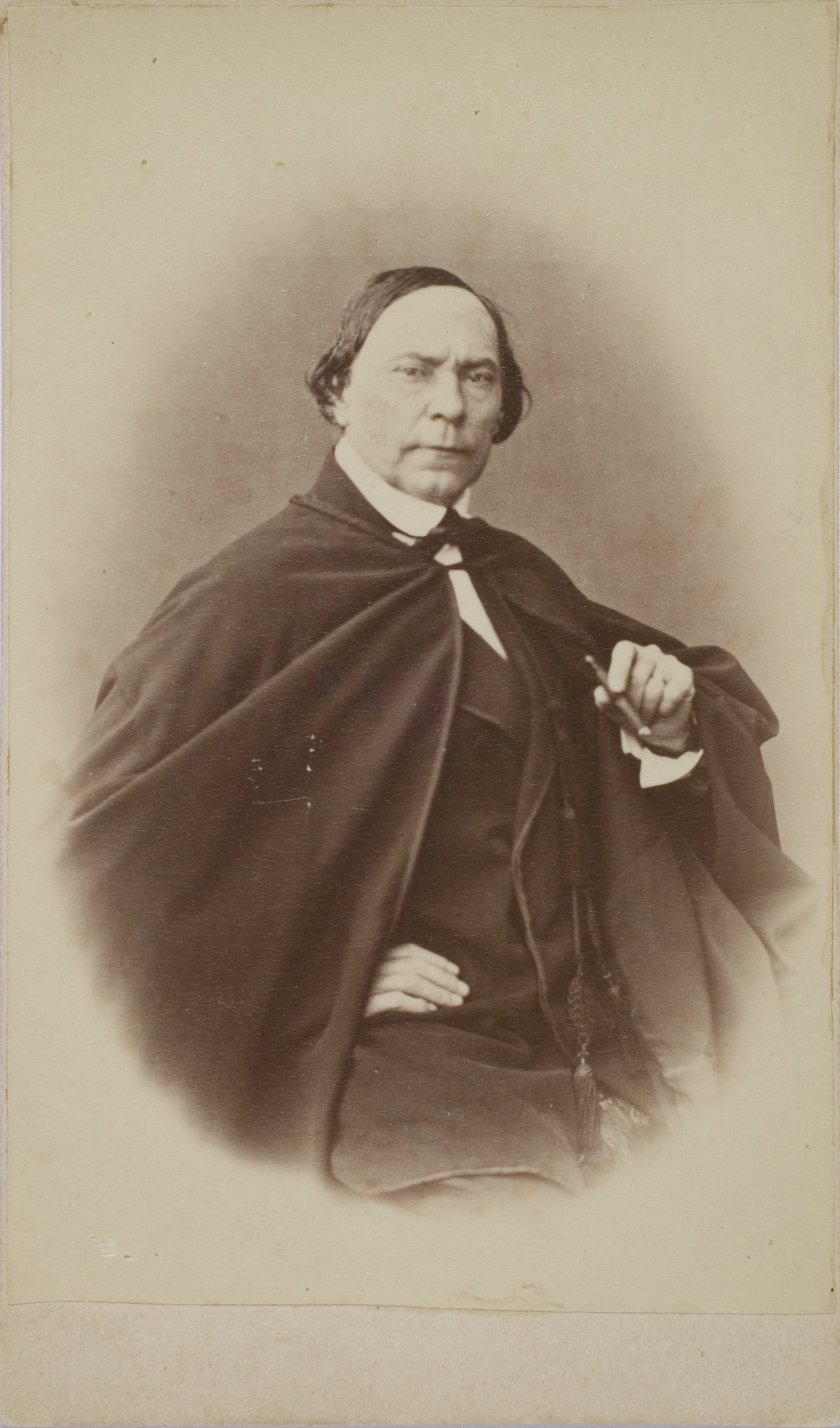 Photograph of the Finnish painter Robert Wilhelm Ekman (1808–1873).